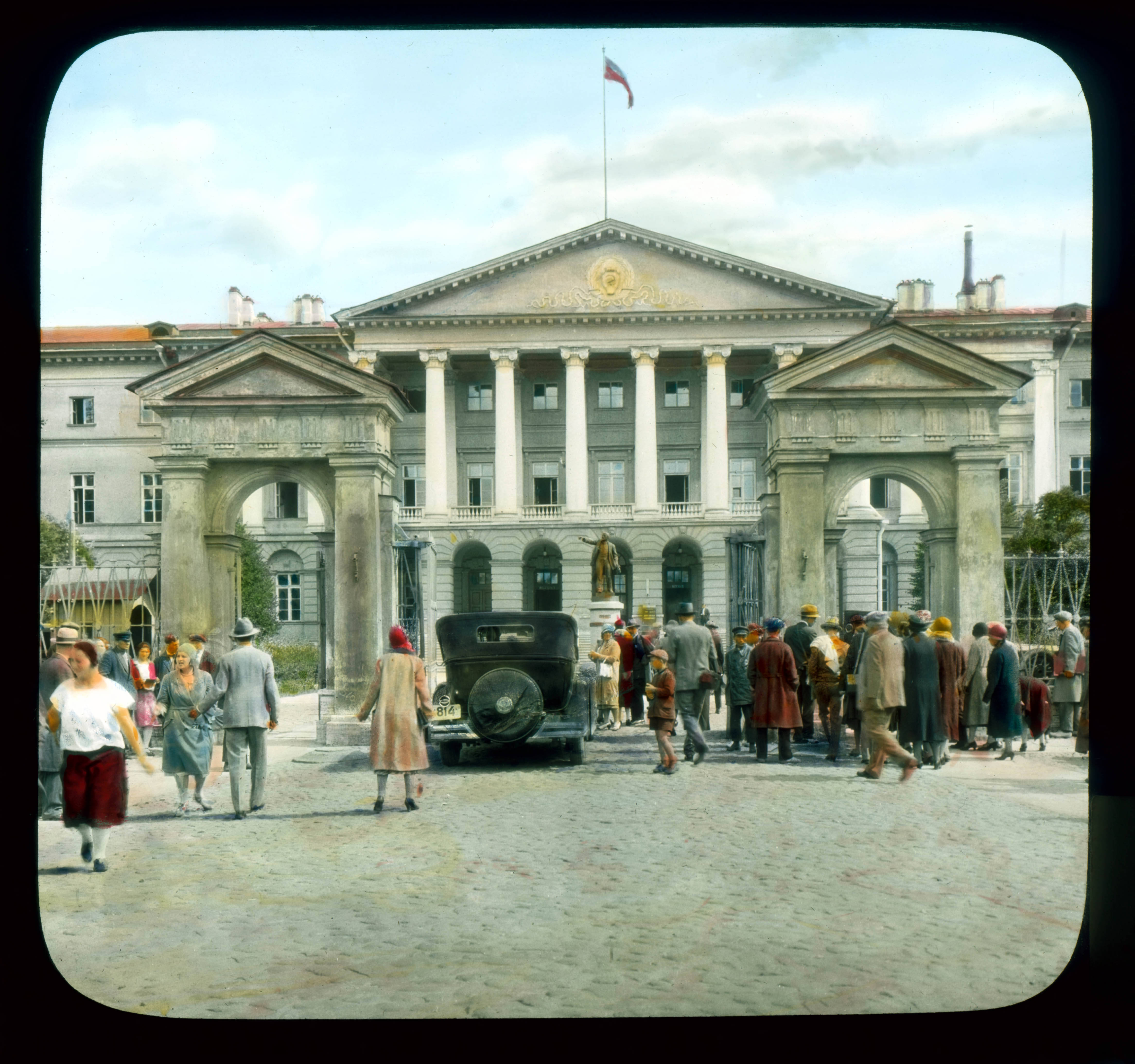 Saint Petersburg. Communist Party headquarters, formerly the Smolny Institute front view